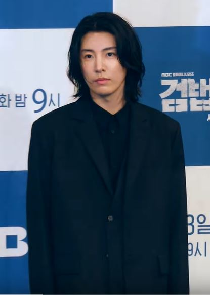 No Minwoo, Partners for Justice 2 press conference